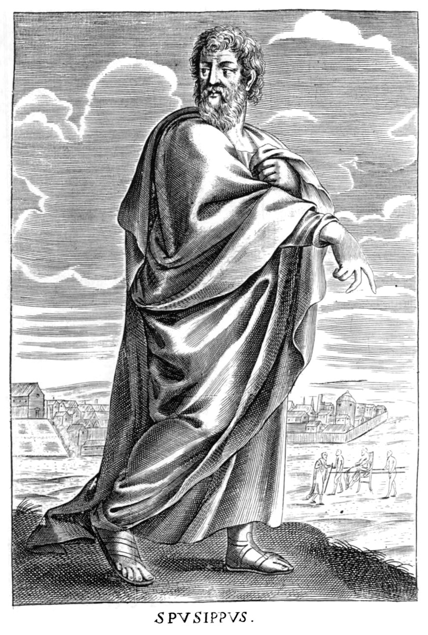 Speusippus, ancient Greek philosopher. From Thomas Stanley, (1655), The history of philosophy: containing the lives, opinions, actions and Discourses of the Philosophers of every Sect, illustrated with effigies of divers of them.